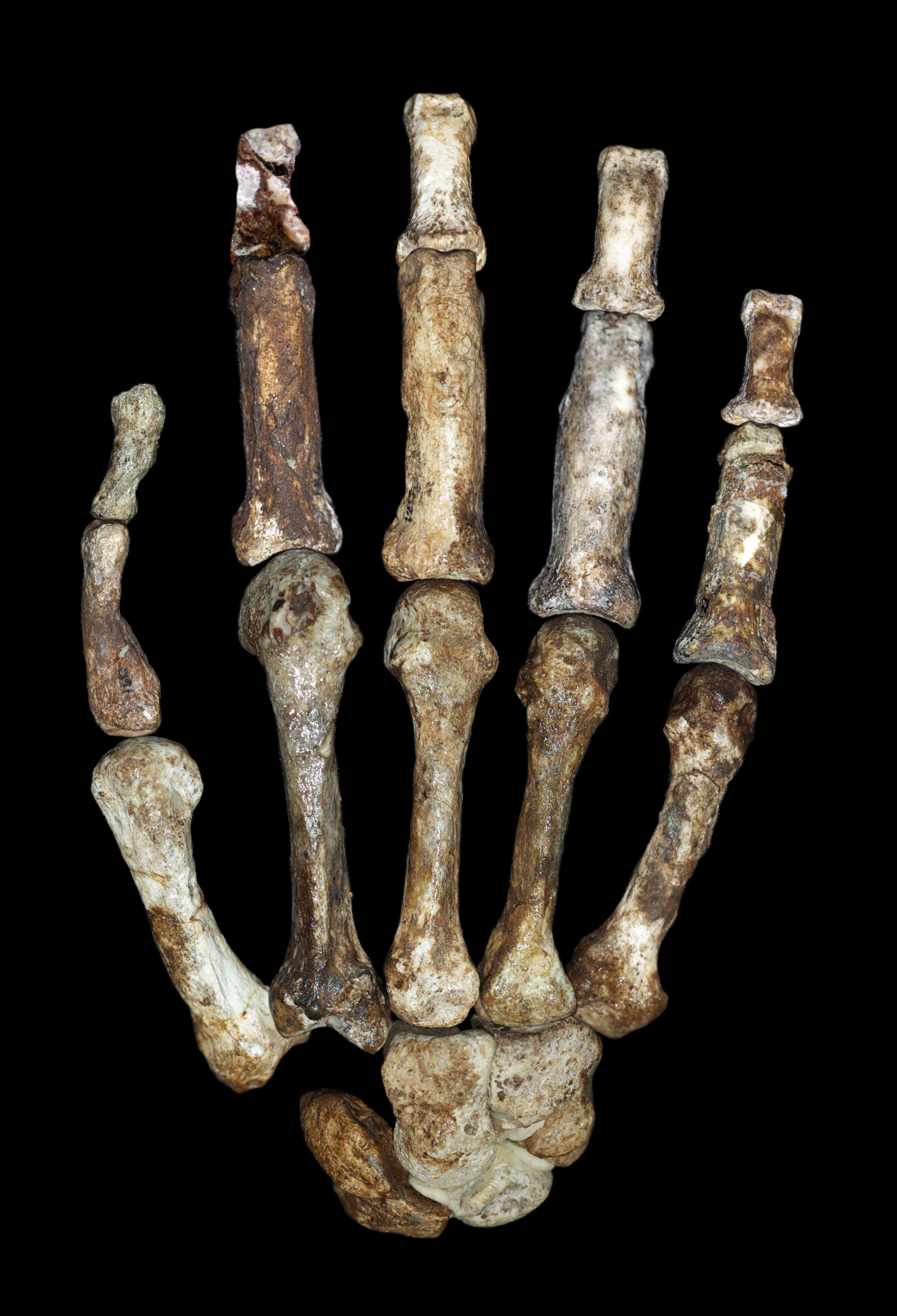 The right hand of Australopithecus sediba (MH2). Image created by Peter Schmid, courtesy Lee R. Berger and the University of the Witwatersrand.